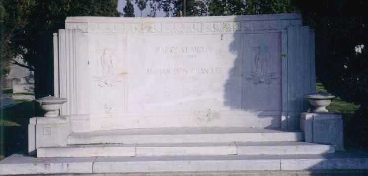 Gravestone of Harry and Marian Otis Chandler.